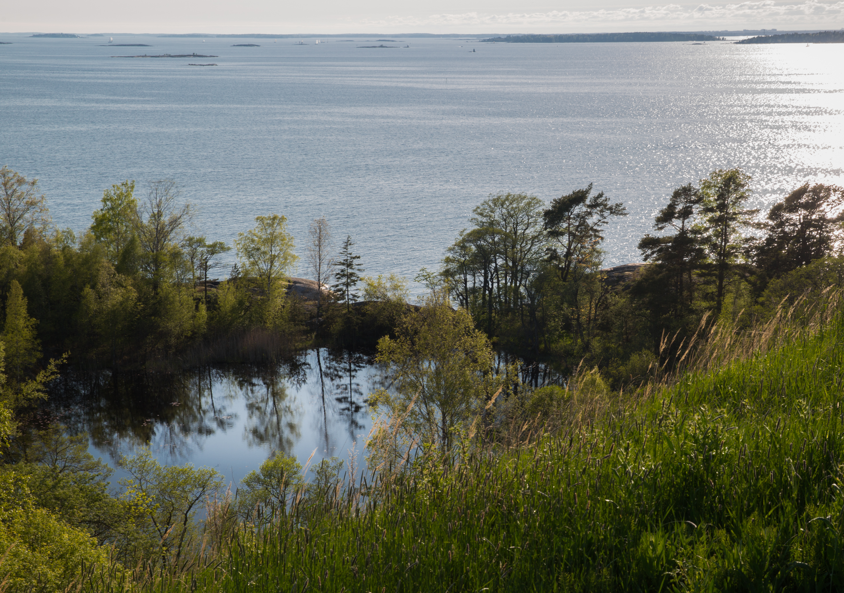 View from Vallisaari to the sea